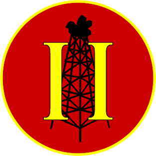 Image depicting the seal of the 2nd division of the Colombian National Army